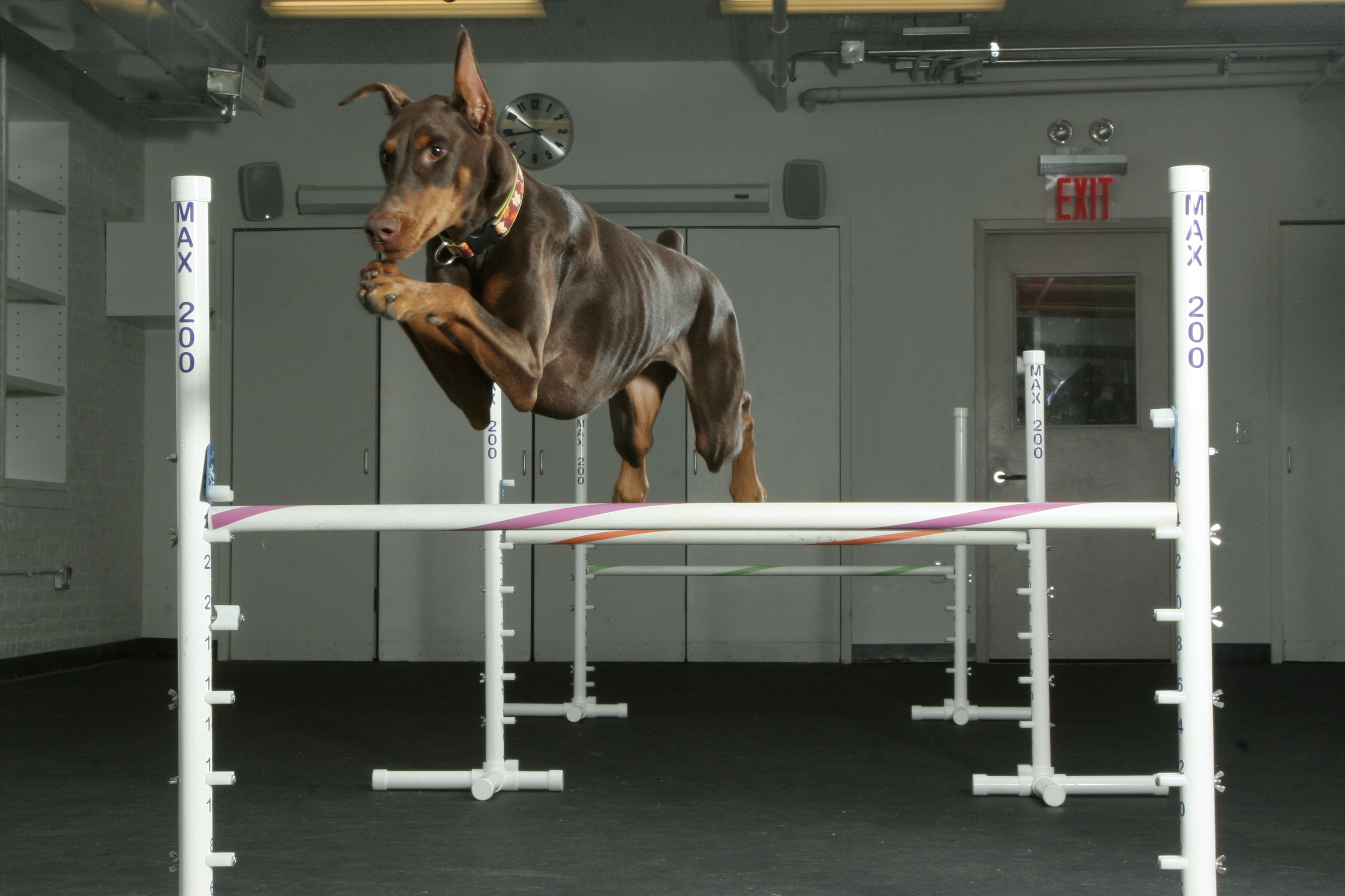 Marea the Dobi - Jump